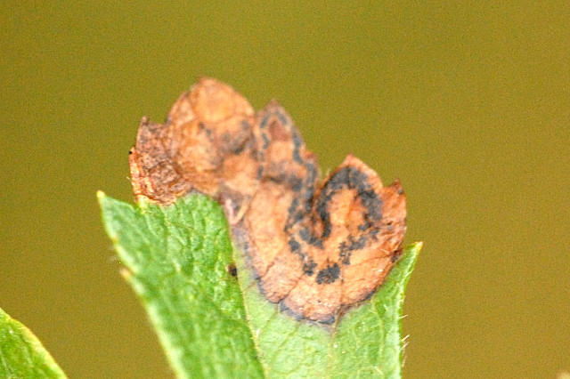 Stigmella oxyacanthella from Commanster, Belgian High Ardennes .